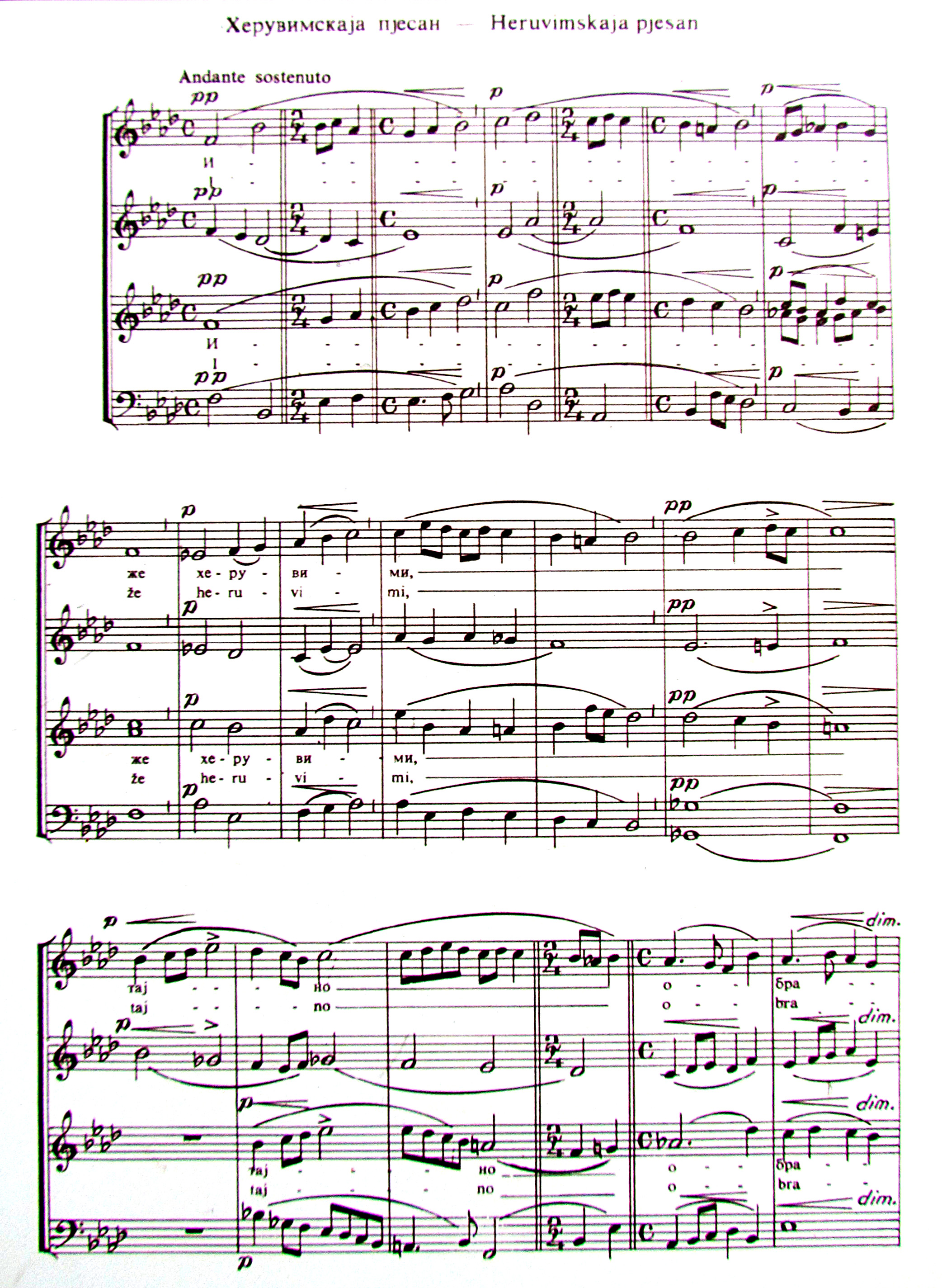 Notes of Cherubs song by Stevan Mokranjac